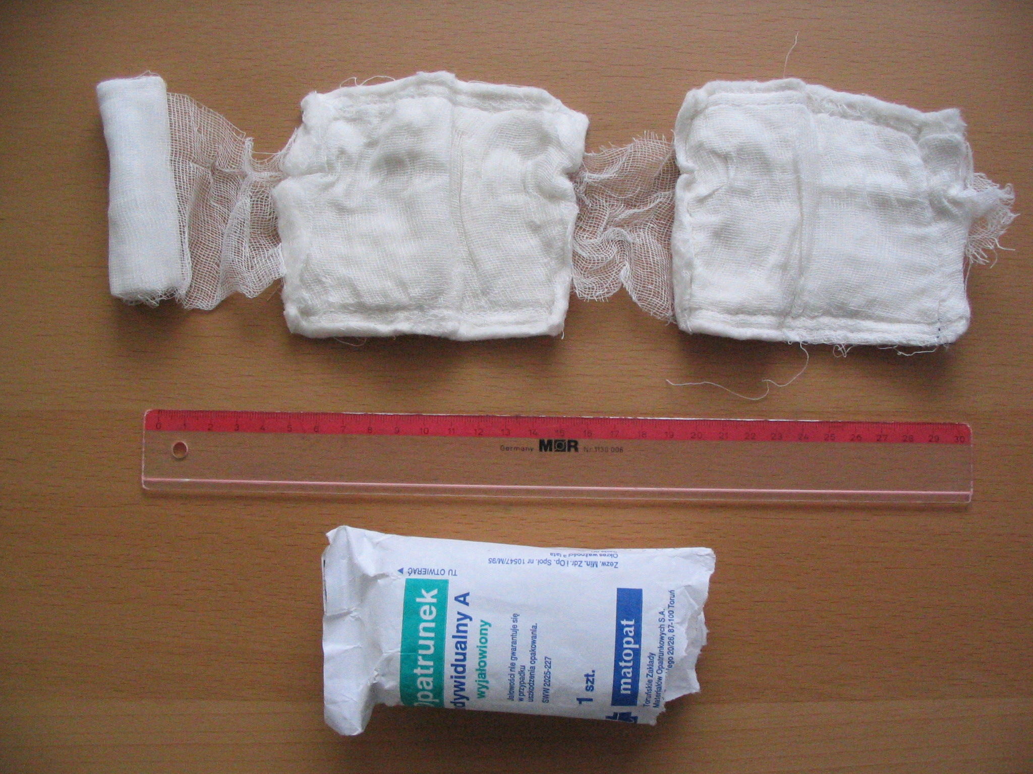 Polish Individual Medical Dressing type A, opened